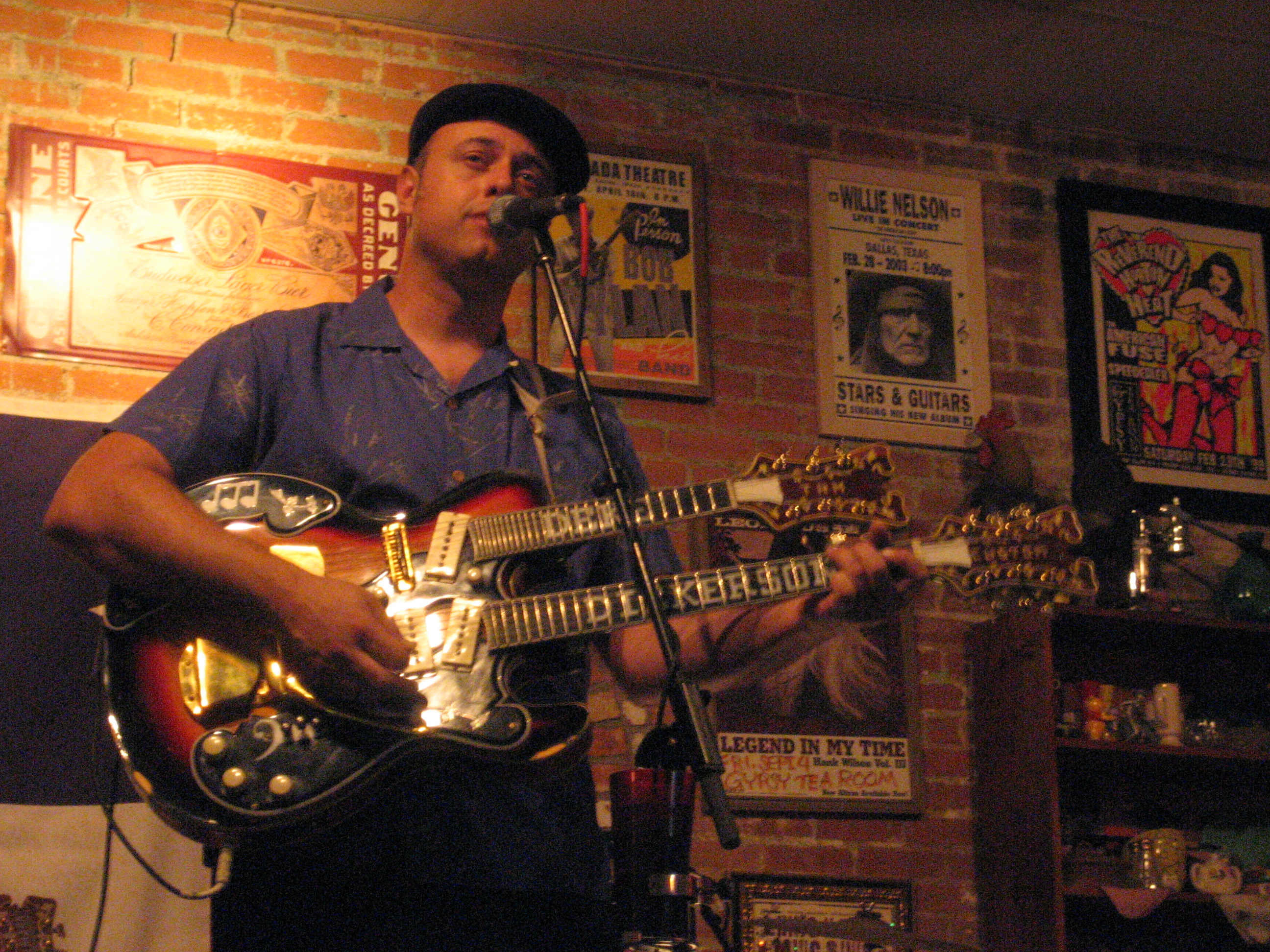 Deke Dickerson, April 25, 2008. AllGood Cafe Dallas, Texas.